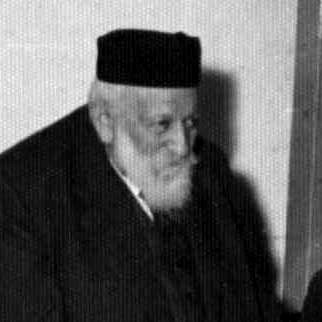 Dr_Moshe_Wallach cropped from Graduation ceremony of the professional nursing class at Shaare Zedek Hospital. Standing: Dr. Moshe Wallach, hospital founder. Seated to Dr. Wallach's left is Dr. Schlesinger, his successor as hospital director. Photo taken in Jerusalem, circa 1954